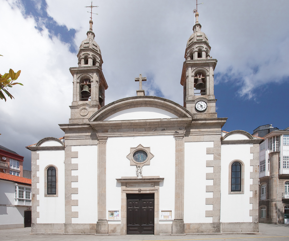 Wayside cross in Cee, Galicia (Spain)